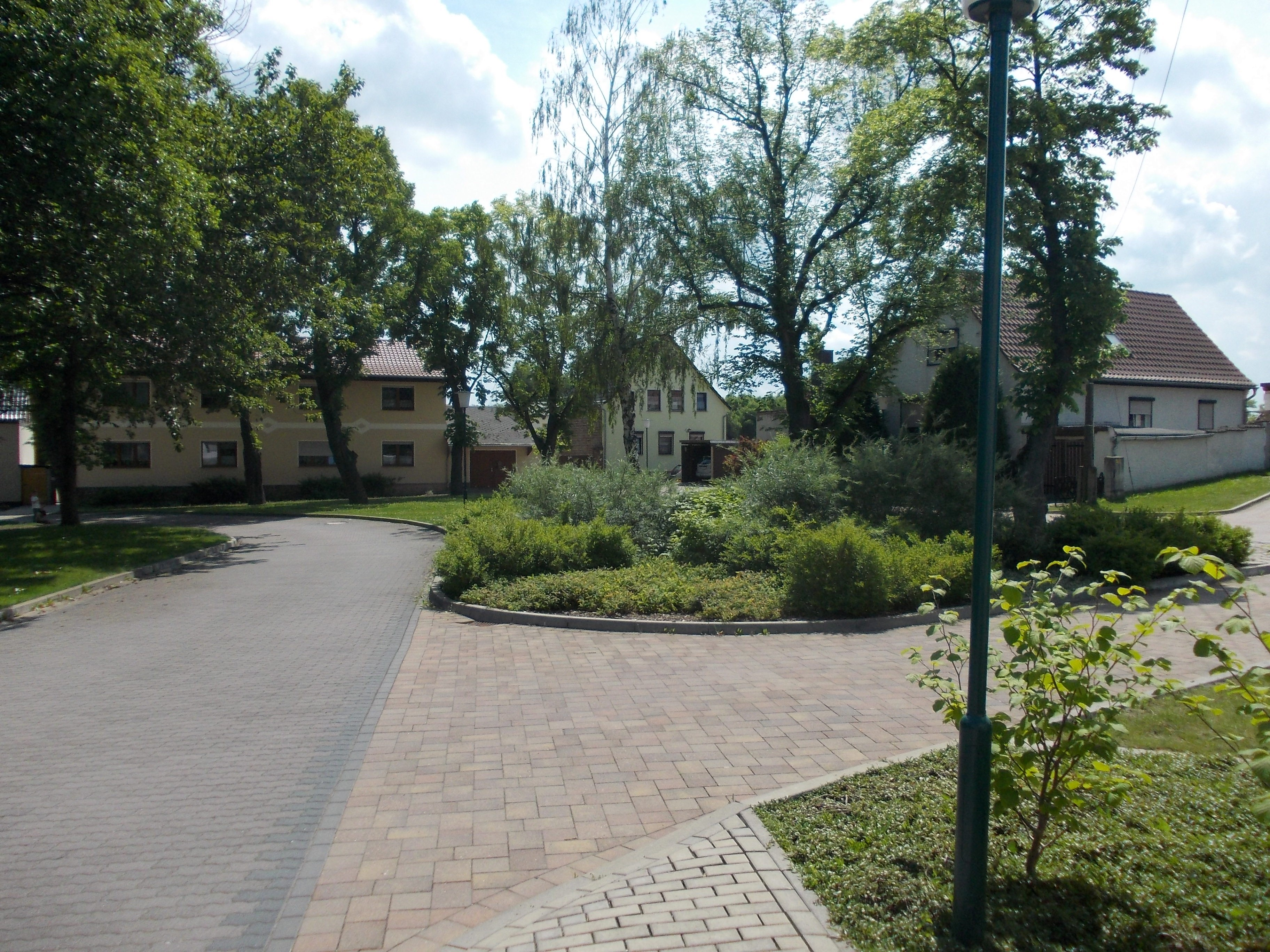 The village green in Köchstedt (Teutschenthal, district: Saalekreis, Saxony-Anhalt)